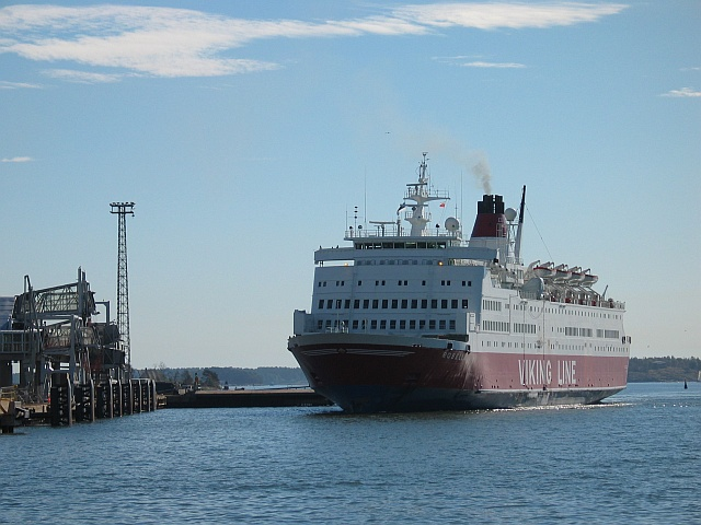 M/S Rosella arriving at the South Harbour of Helsinki